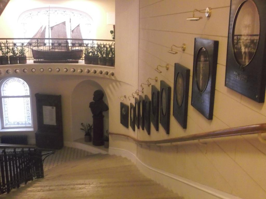 rgo_upstairs